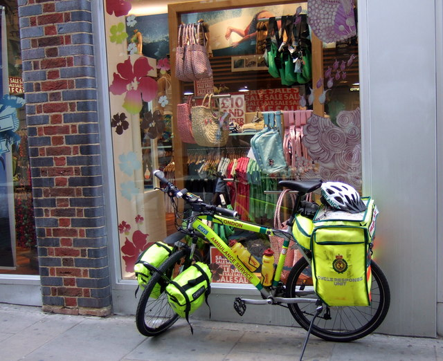 Emergency response bicycle Seen outside a shop in the Covent Garden area where ambulances would be slow to negotiate the narrow streets. The London Ambulance Service Bicycle Response Unit was set up in 2002 in central London to reduce emergency medical response times to patients in pedestrianised areas. The bicycle-ambulance medics, after assessing the patient’s condition, may be able to cancel the ambulance dispatched with them in cases where it is not needed so ambulance crews are freed immediately to attend to more seriously ill or injured patients. After a few minutes the medic emerged from the shop and rode off so presumably no further attention was required here.